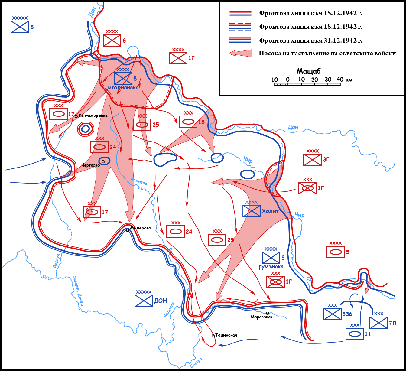 Operation Little Saturn. World War Two, Eastern front.